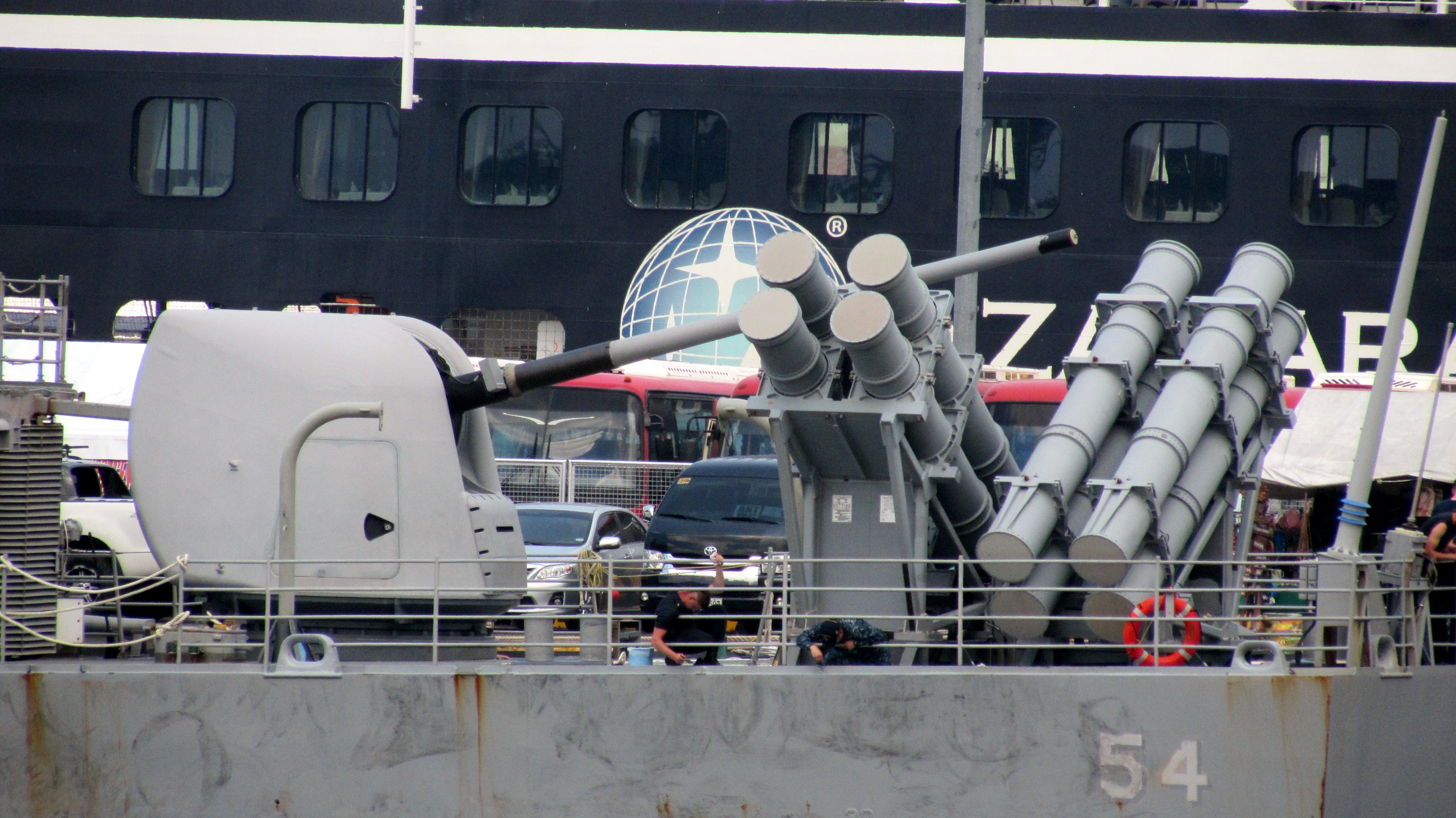 The stern weapons of the USS Antietam (CG-54) Cruiser, a Mk 45 5"/54 cal. Light Weight Gun and Mk 141 Harpoon Missile Launchers. Photo taken at the Manila South Harbor Pier 15.